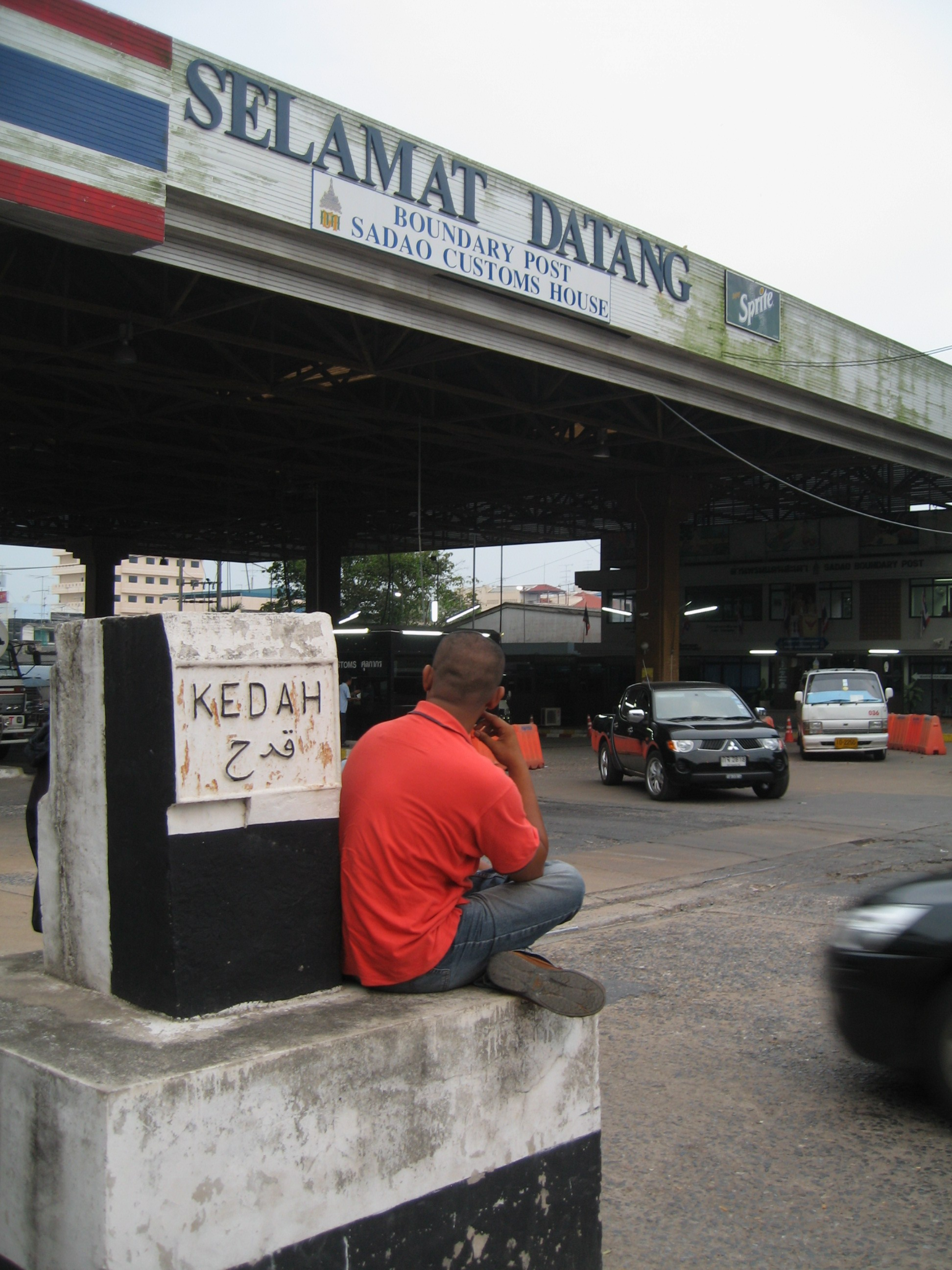 Sadao immigration checkpoint, Danok Village, Sadao District, Songkhla Province, Southern Thailand. With Malaysia-Thailand boundary stone in front.